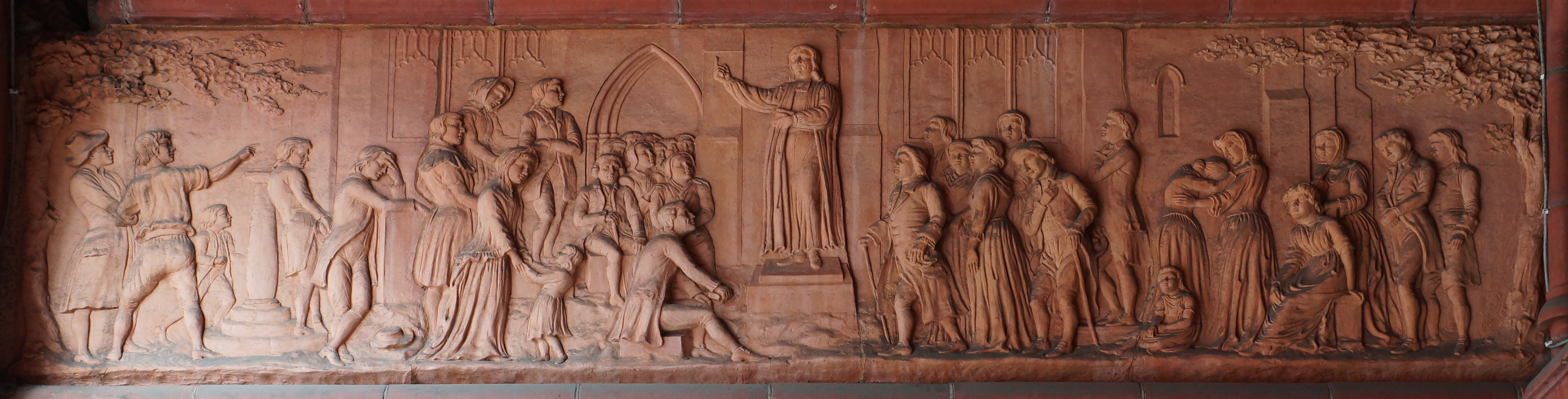 One of two terracotta relief sculptures, Events in the Life of John Wesley, in the porch of Methodist Central Hall, Birmingham, England by Tamworth firm Gibbs and Canning Limited, c1900-1903. Perspective correction modified in Photoshop.